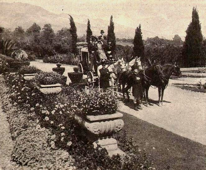 Still from the American film serial The Diamond from the Sky (1915), on page 8 of the December 1915 Movie Pictorial.